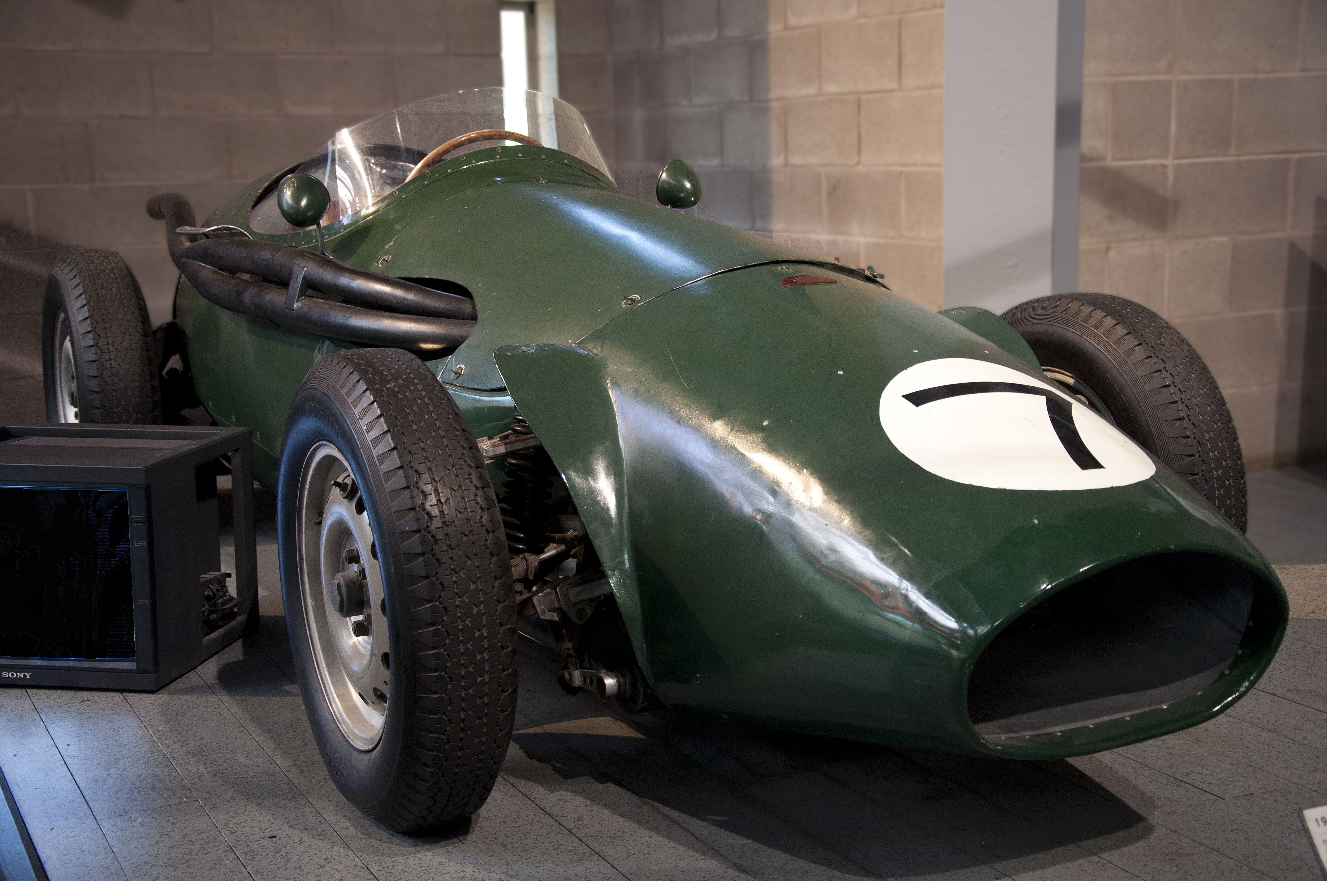 Connaught type B (1955) at the National Motor Museum in Beaulieu, England